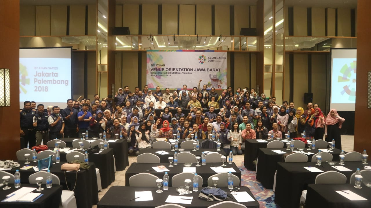 Job Specific Training for Medical & Doping Control Officer and Volunteer of Asian Games 2018 Cluster Jakarta Suburb (West Java) Aston Pasteur Bandung, 30 July 2018